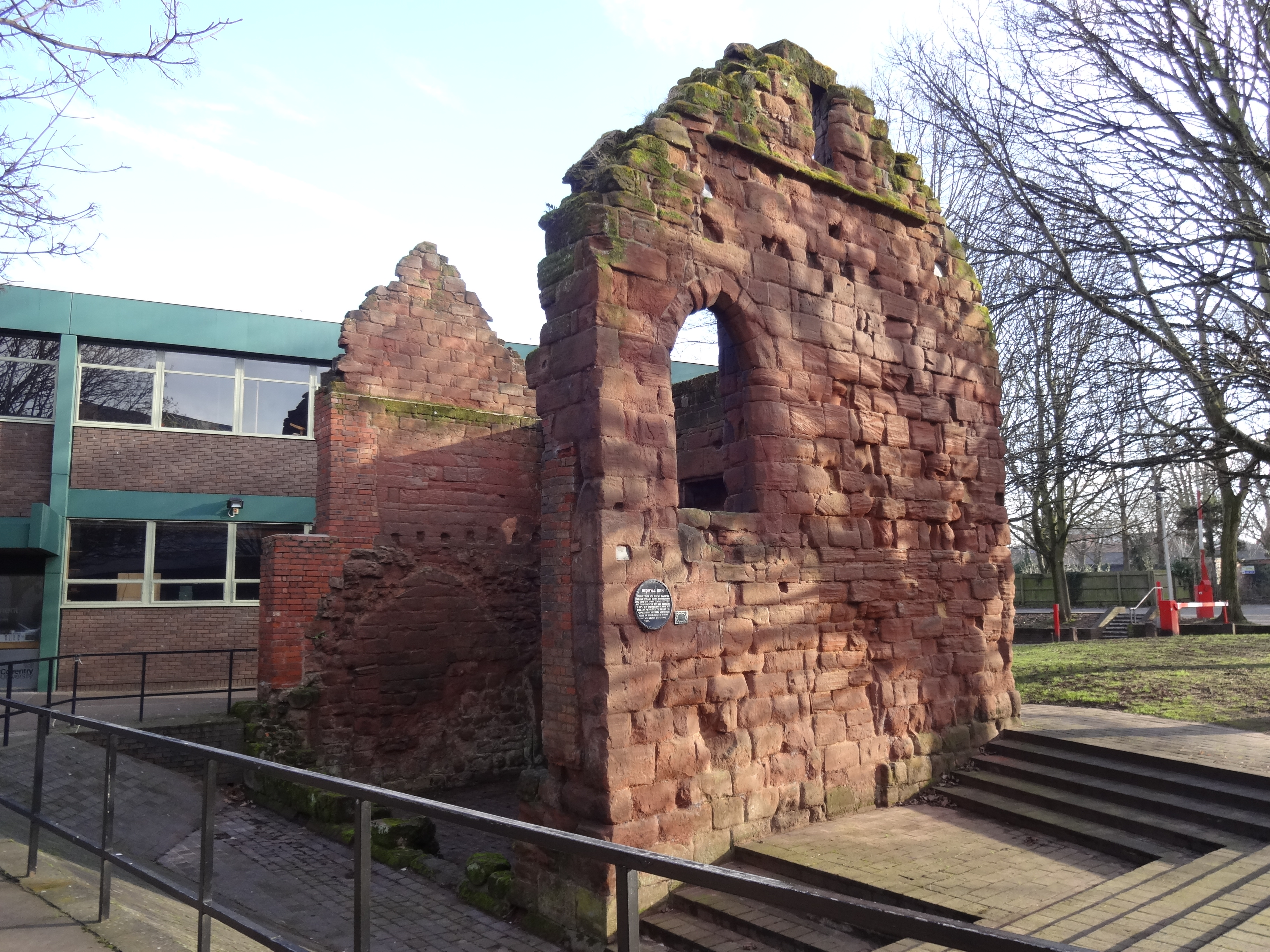 These remains of a medieval stone building in Much Park Street, Coventry, are a Grade II*listed building structure (entry number 1342921).